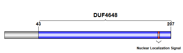 Domain of unknown function and nuclear localization signal locations along C8orf46 protein.